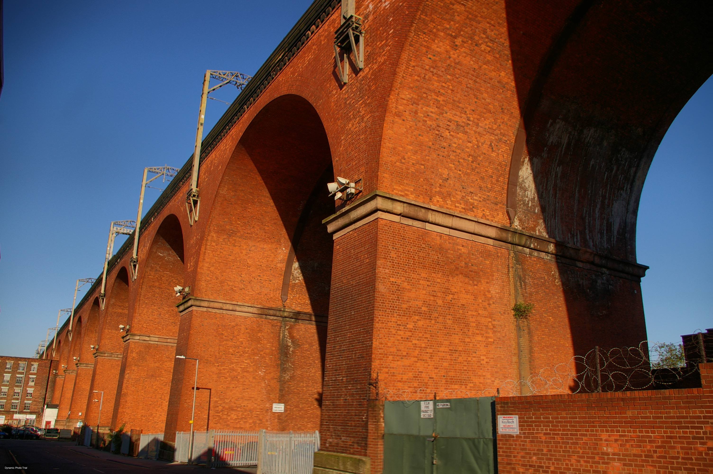 Photograph of Stockport Viaduct, taken by Serigrapher on Flickr. Original URL